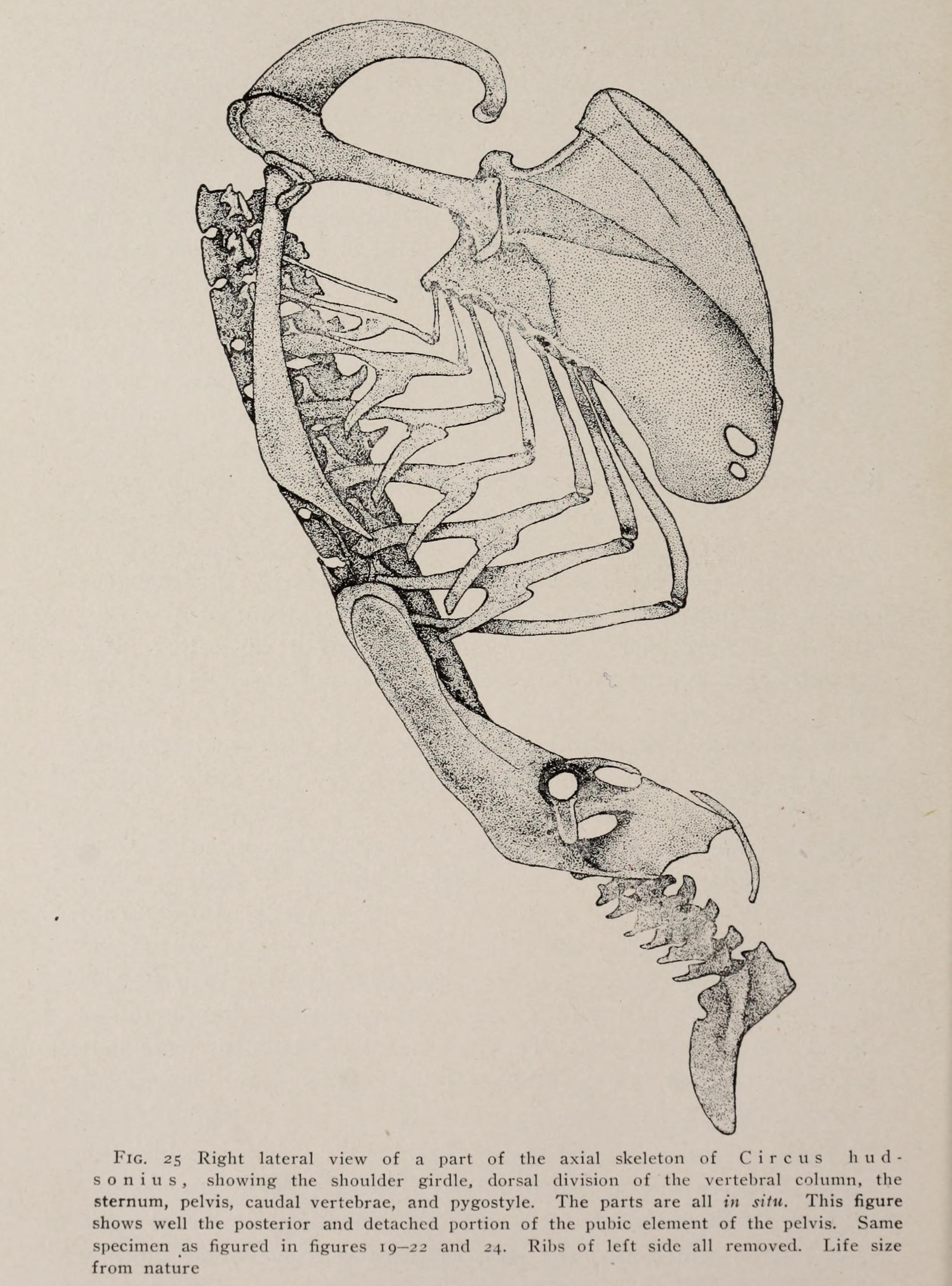 Title: Annual report of the Regents - New York State Museum. Identifier: annualreportofr6219newy_0 Year: 1889 (1880s) Authors: New York State Museum; University of the State of New York. Board of Regents Subjects: New York State Museum; Natural history; Science; Museums Publisher: Albany, N. Y. : University of the State of New York Text Appearing Before Image: 64 NEW YORK STATE MUSEUM cularity of its neural canal, the measurement for the latter being taken over the middle of the centrum. Text Appearing After Image: Fig. 25 Right lateral view of a part of the axial skeleton of Circus h 11 d â BOnillS, showing the shoulder girdle, dorsal division of the vertehral column, the sternum, pelvis, caudal vertebrae, and pygostyle. The parts are all in situ. This figure shows well the posterior and detached portion of the pubic element of the pelvis. Same specimen as figured in figures 19â22 and 24. Ribs of left side all removed. Life size from nature Returning to the 14th vertebra, we find the tricornute hypa- pophysis but little larger than we found it in the 13th, but an